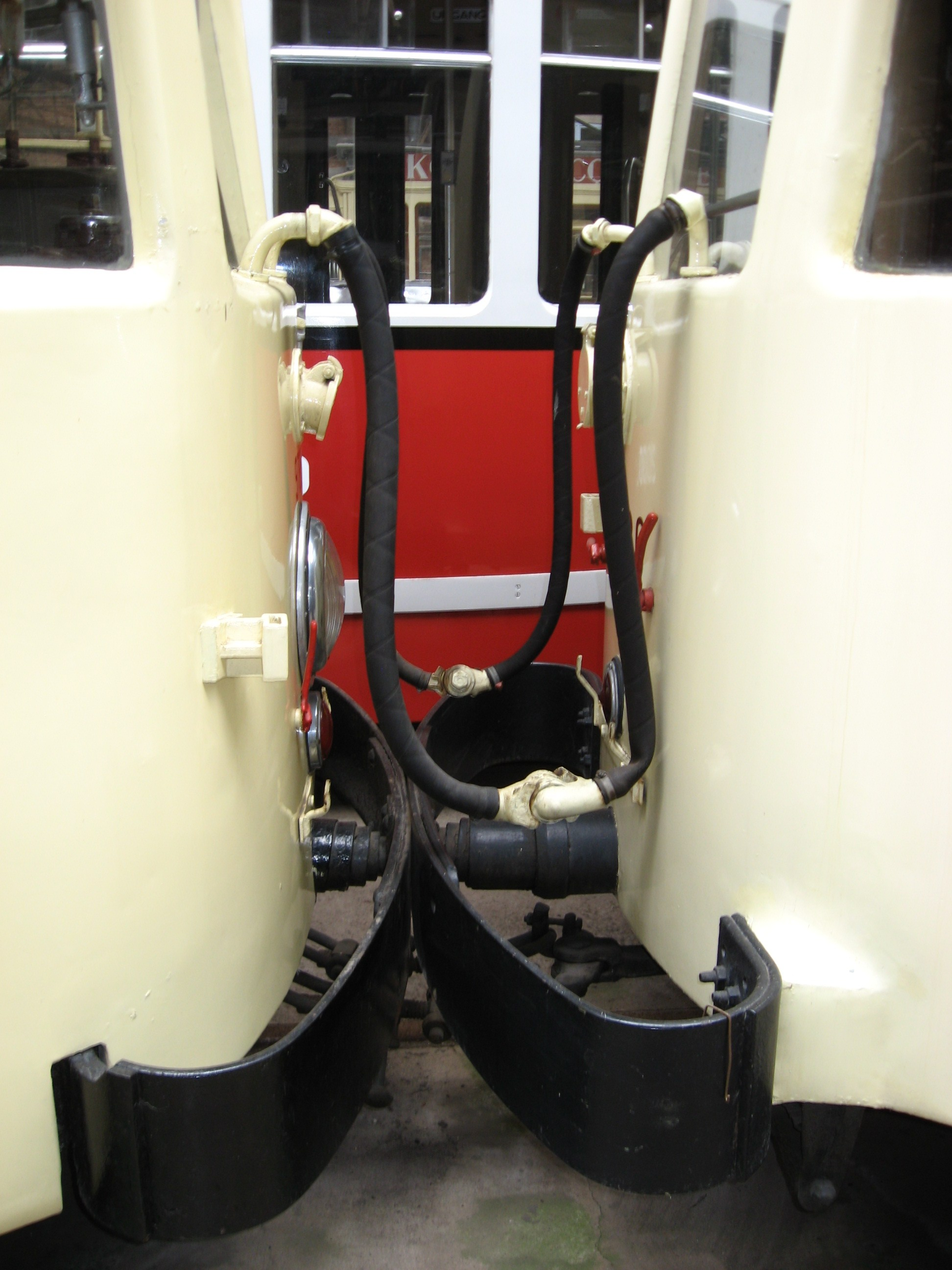 Typical coupling between SNCV motortram and trailer. The hoses are for the breakpressure. With this system there always only one point of contact, wich adjust by curves.